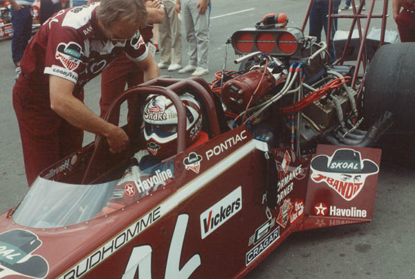 Don Prudhomme, Denver 1996. He was ranked #3 on NHRA's Top 50 drivers list (2001)Don Prudhomme